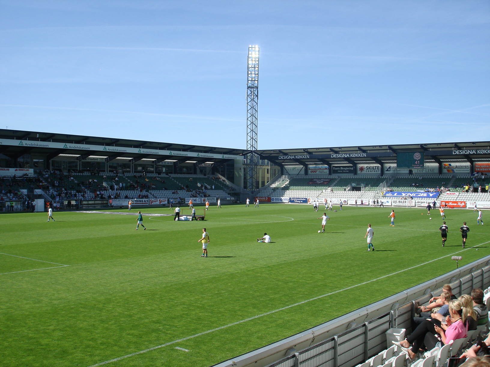 Viborg Stadion in Viborg, Denmark